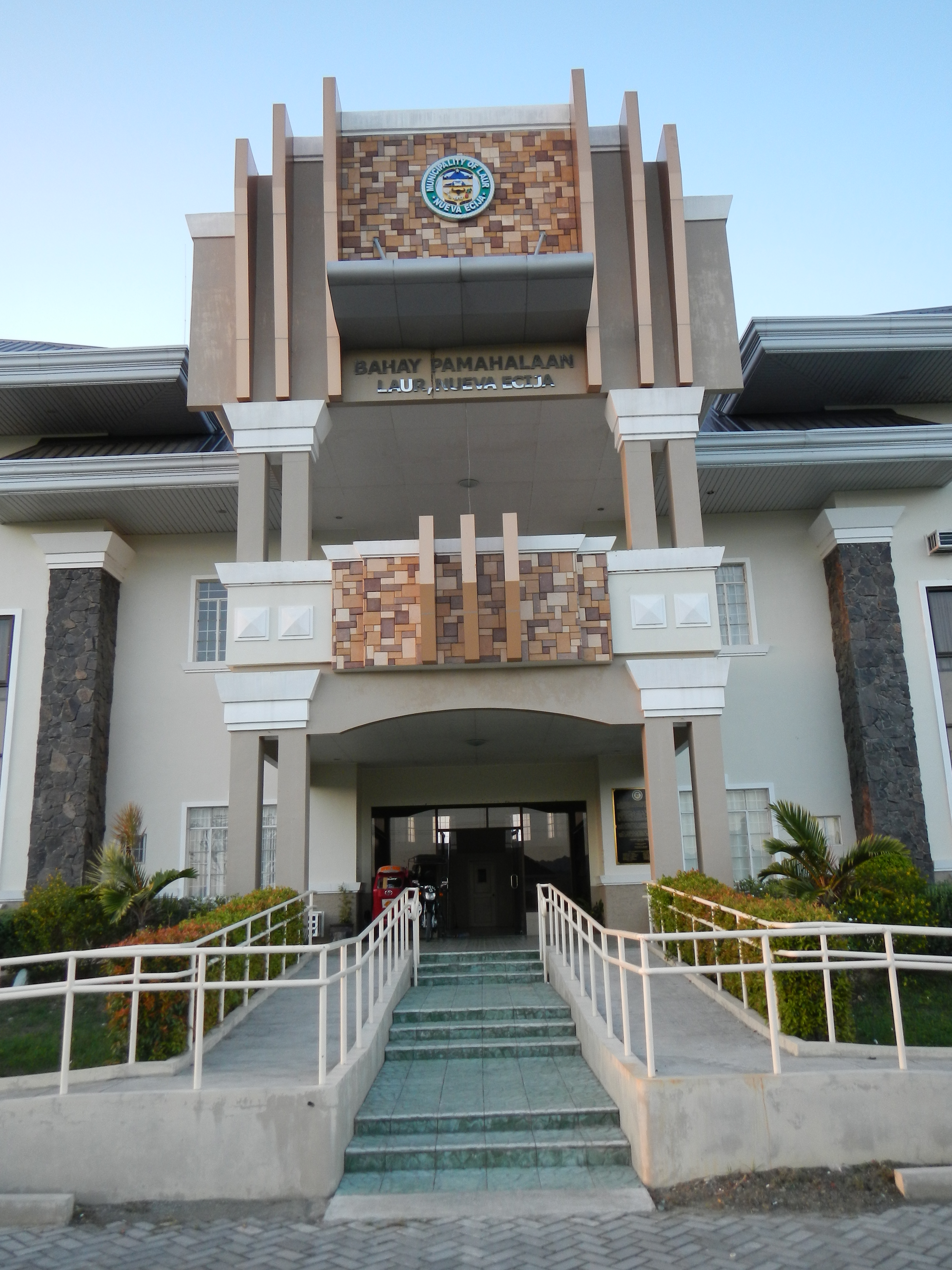 New Town Hall of Laur, Nueva Ecija[1] is a third class municipality in the province of Nueva Ecija, Philippines; it has a population of 32,205 people in 2010. During World War II from 1942 to 1946, the military camp, bases and general headquarters of the Philippine Commonwealth Army were located in Laur and the engagements of the Anti-Japanese Operations in Central Luzon from 1942 to 1945. Laur was infamous for Fort Magsaysay where Former Senator Benigno Aquino, Jr. and Jose Diokno were in solitary confinement for twenty-two days.[2]Mayor Alvaro G. Daus, Vice- Mayor Teodoro S. Rivera[3][4]Its geographical coordinates are 15° 35' 3" North, 121° 11' 1" East and its original name (with diacritics) is Laur. [5]Land Area: 295.88 km² ZIP Code: 3129